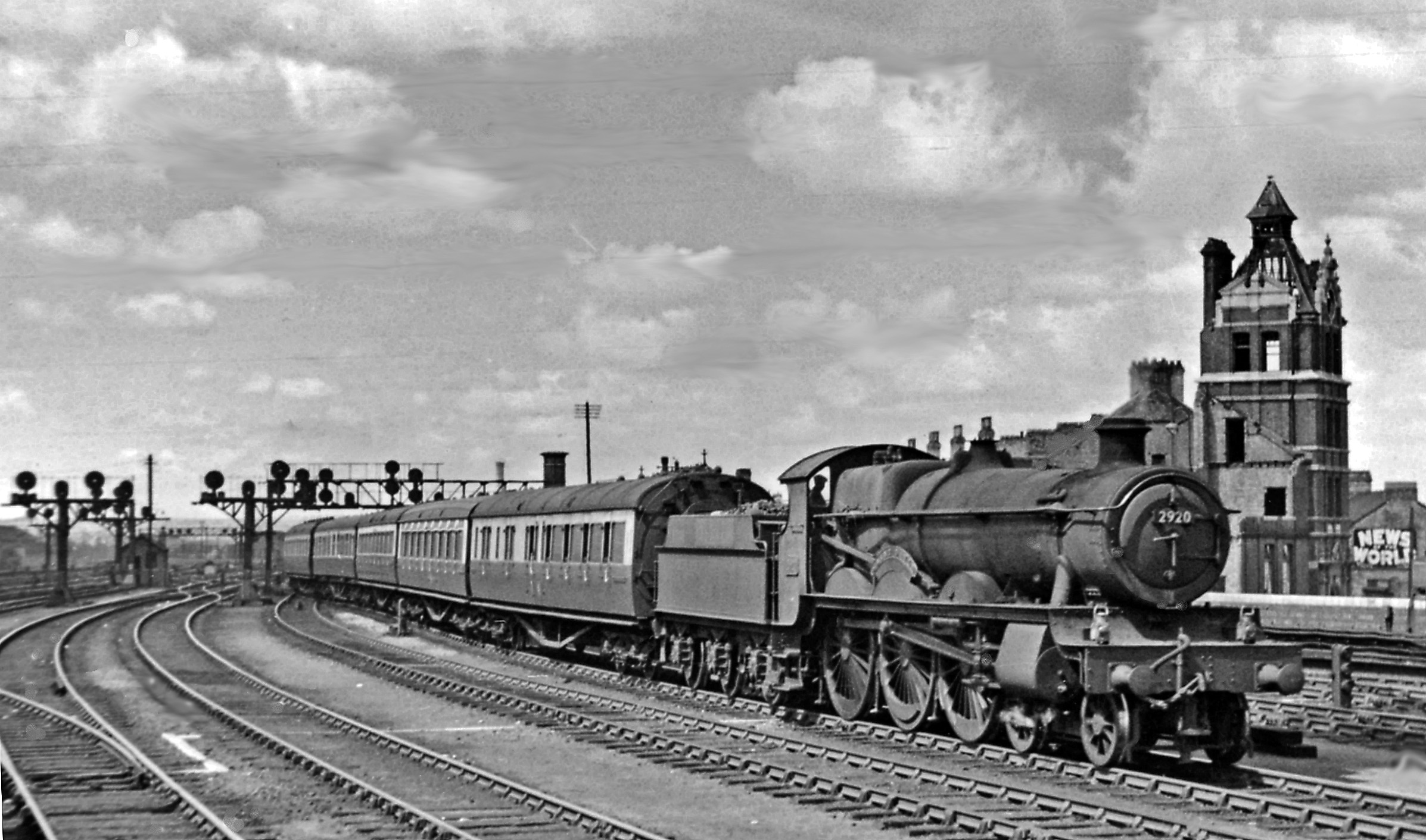 A GW 'Saint' 4-6-0 bring the empty stock into Cardiff General Station. View westward, towards Swansea etc.; ex-GWR South Wales main line. The train is entering Cardiff General from Canton Carriage Sidings, to form a train to Birmingham Snow Hill via Hereford, headed by the last of Churchward's 'Saint' 4-6-0's, No. 2920 'Saint David'; built in 9/07 it lasted until 9/53.